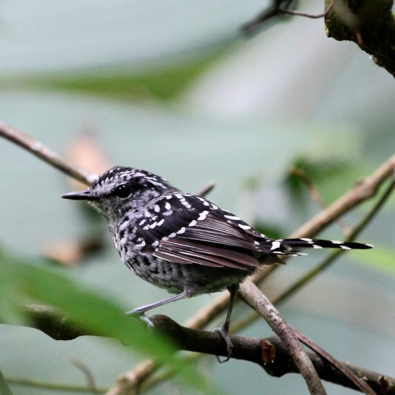 Scaled Antbird (male) at Bertioga - SP - Brazil